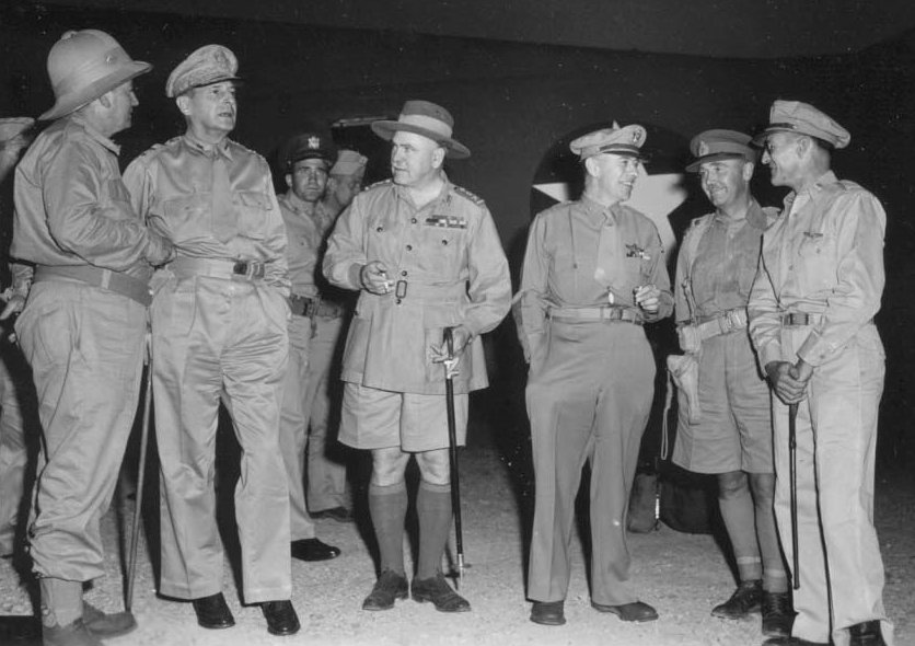 Left to right: Mr Frank Forde (Australian Minister for the Army); General Douglas MacArthur; General Sir Thomas Blamey; Lieutenant General George C. Kenney; Lieutenant General Edmund Herring; Brigadier General Kenneth Walker.